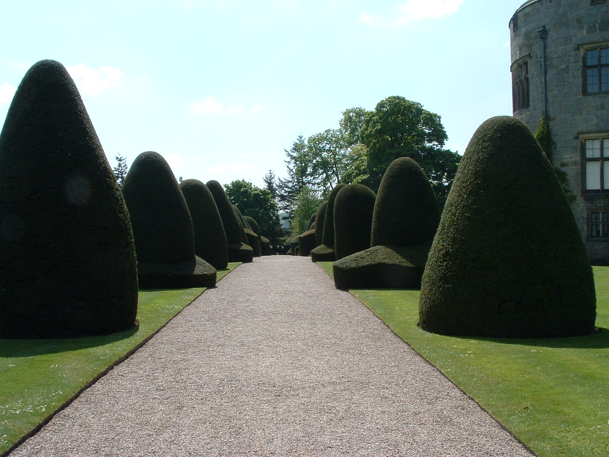 The garden of Castle Chirk Photo made by uploader, Akke.